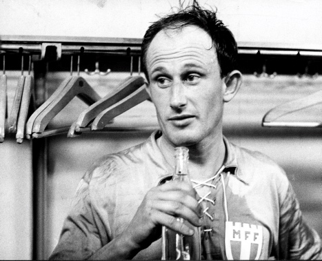 Ingvar Svahn, swedish footballplayer (1938-2008)